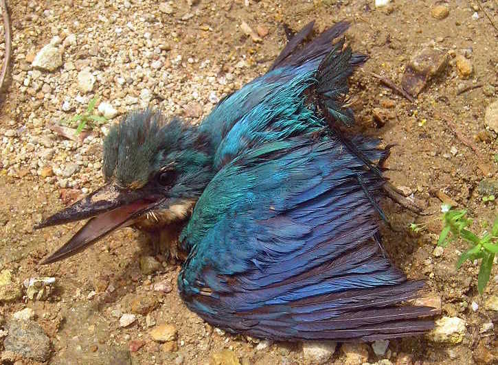 The Takong Island National Marine Reserve was severely damaged after the the M/T Solar oil tanker sank off the Guimaras Strait, Philippines, on 11 August 2006. This bird (a kingfisher?) was rescued in one of the mangrooves being cleaned up. Olympus Camedia (August 2006, Packard-ICOMP Study Visit). Slightly improved with Picasa.